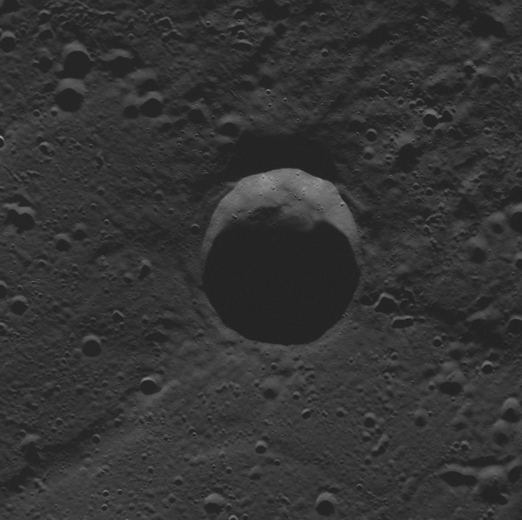 Carolan crater on Mercury. MESSENGER Wide Angle Camera image. Approximate north is up. Emission Angle: 19.0 Incidence Angle: 83.9 Latitude: 83.9 Longitude: 31.1 Phase Angle: 84.2